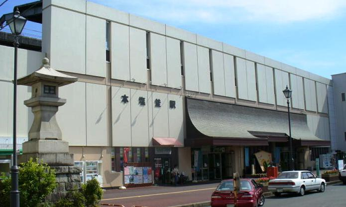 仙石線本塩釜駅 Hon-Shiogama Station. East Japan Railway Co.